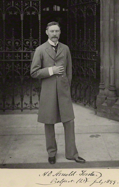 Hugh Arnold-Forster, Conservative politician, outside the Palace of Westminster in 1899.